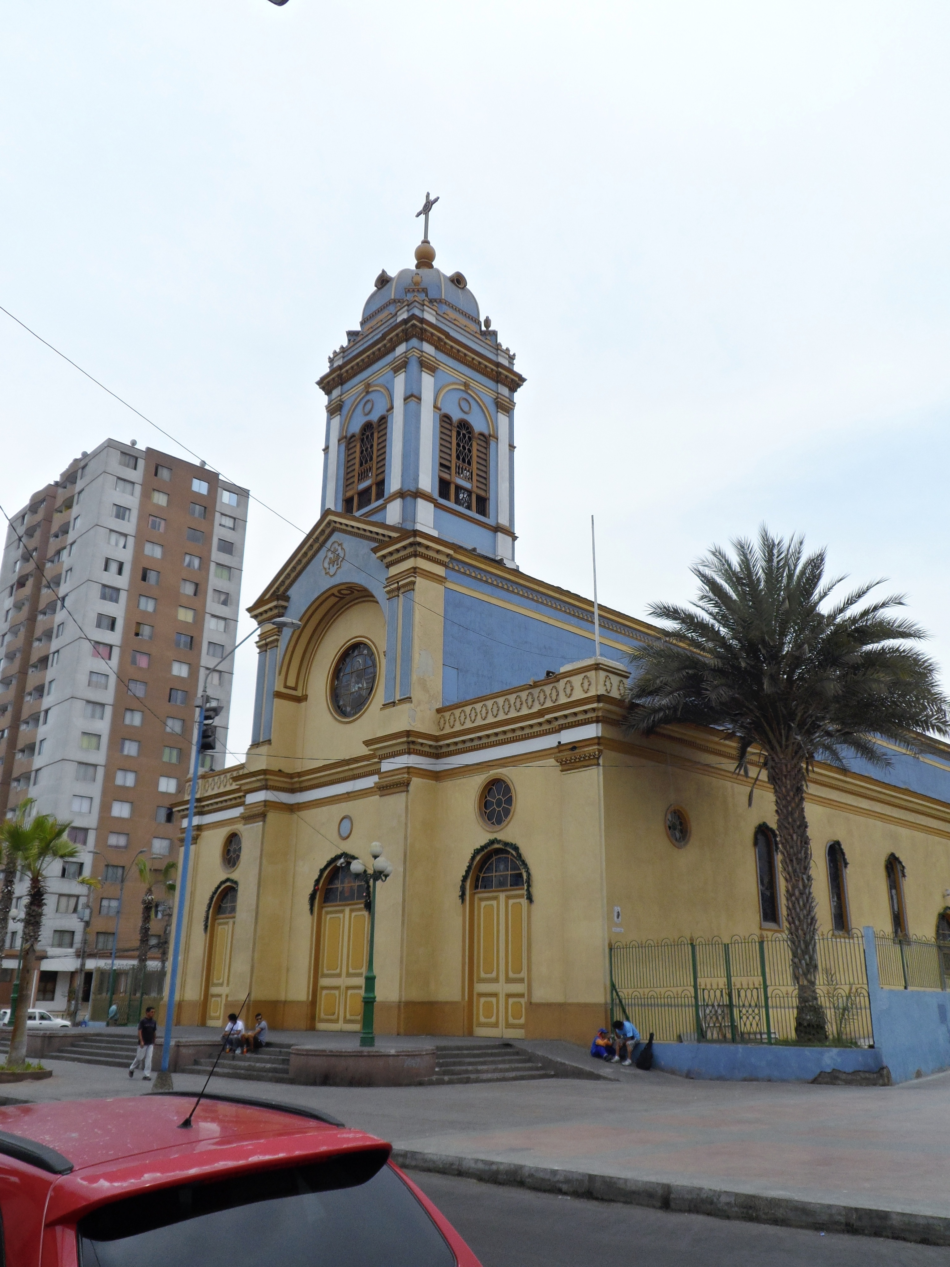 Iglesia Catedral de Iquique, calle Bolívar. I región.